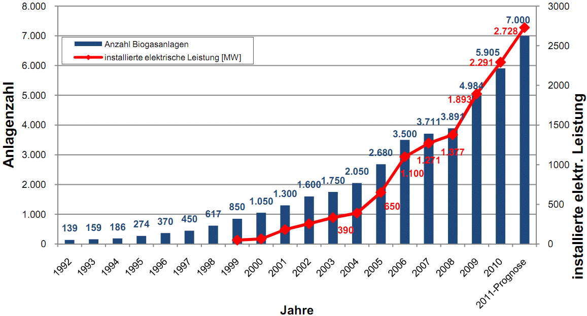 Number and electrical power (MW) of german biogas plants at November 2010